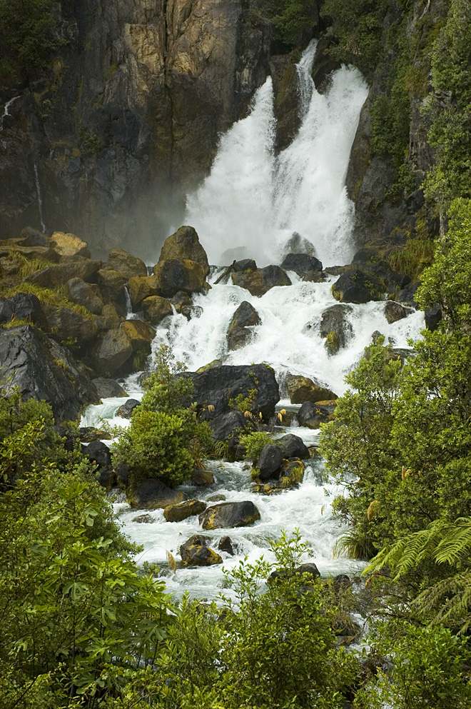 Lower portion of Tarawera Falls on the Tarawera River (21 January 2005.) Photograph by James Shook, who retains copyright and releases the image under the license shown below.